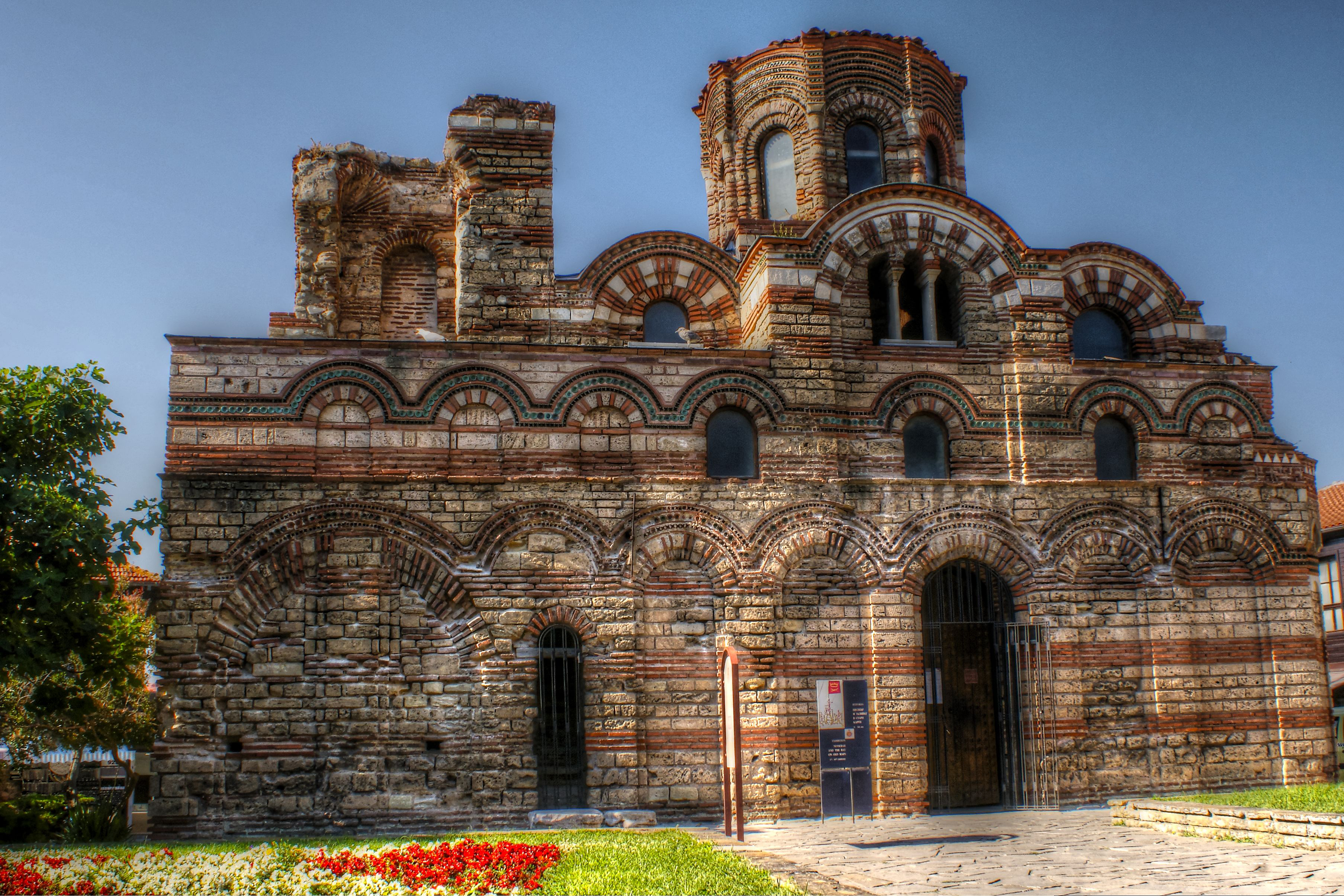 Church of Christ Pantocrator, Nesebar